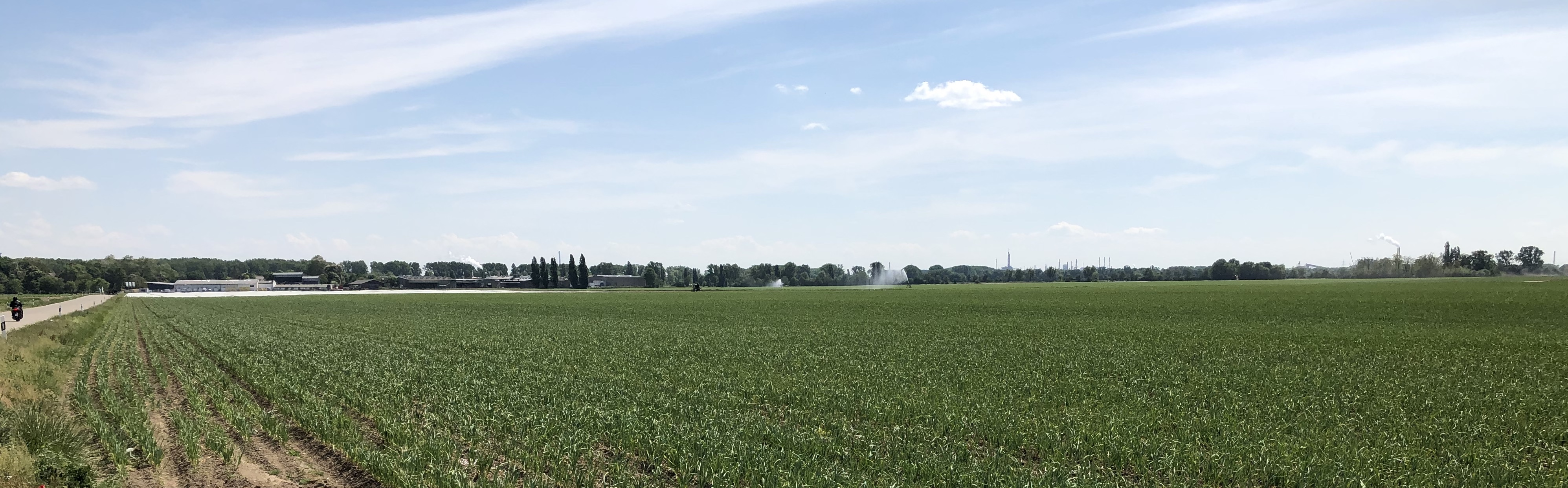 The Petersau near Frankenthal (Pfalz). On the horizon you can see the Hofgut Petersau with the production facility for potato chips.